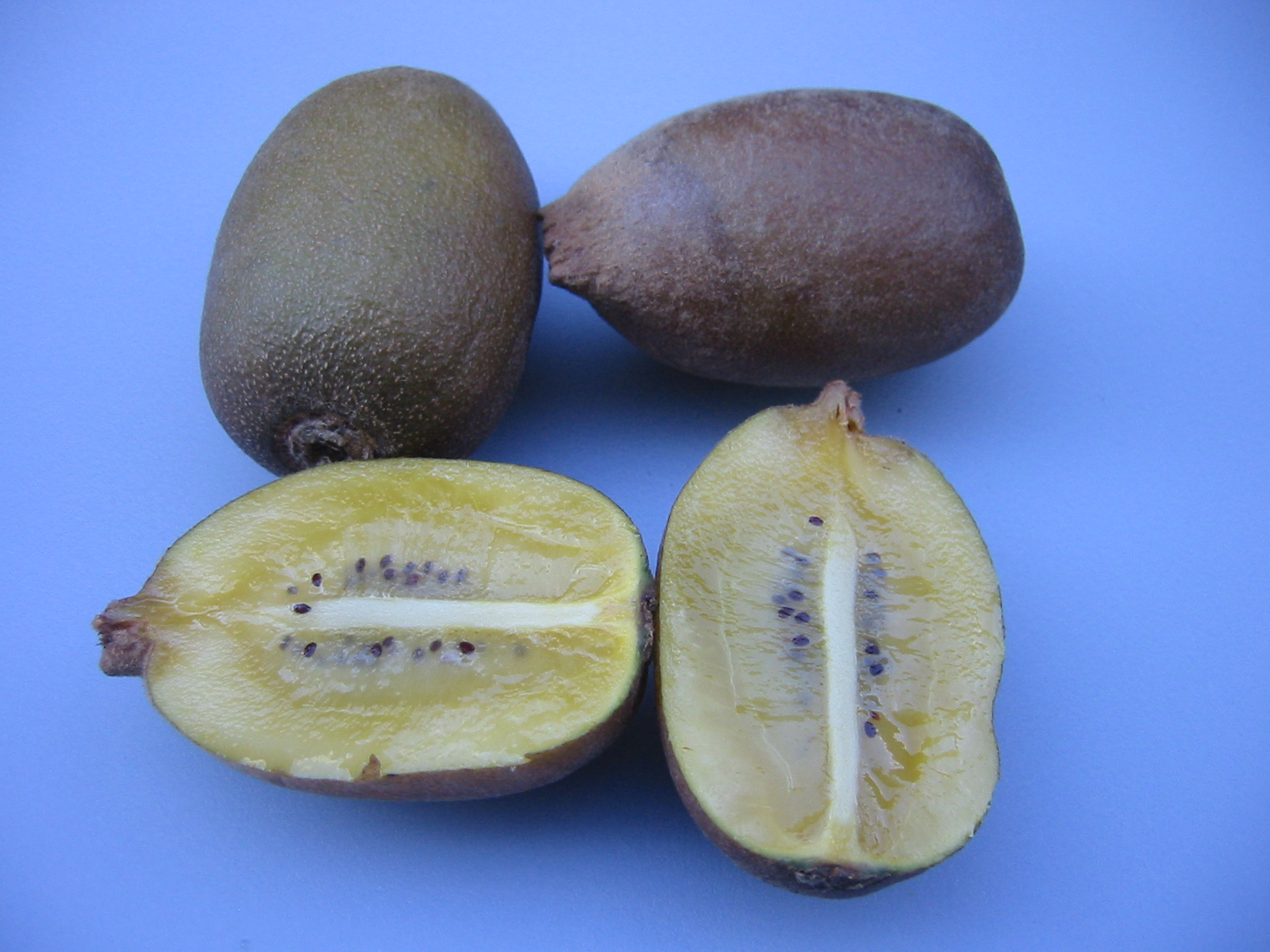 Three golden kiwifruit, one sliced lengthwise on a light blue background.